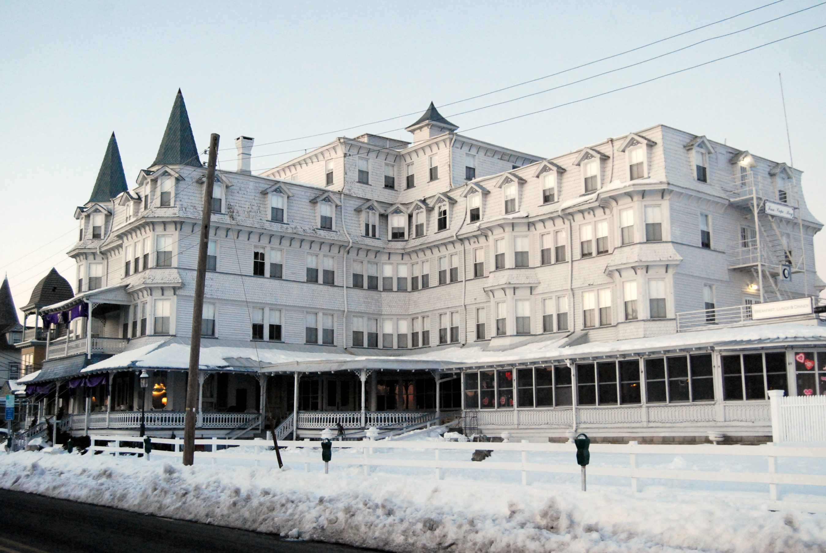 7 Ocean Street, Cape May, New Jersey